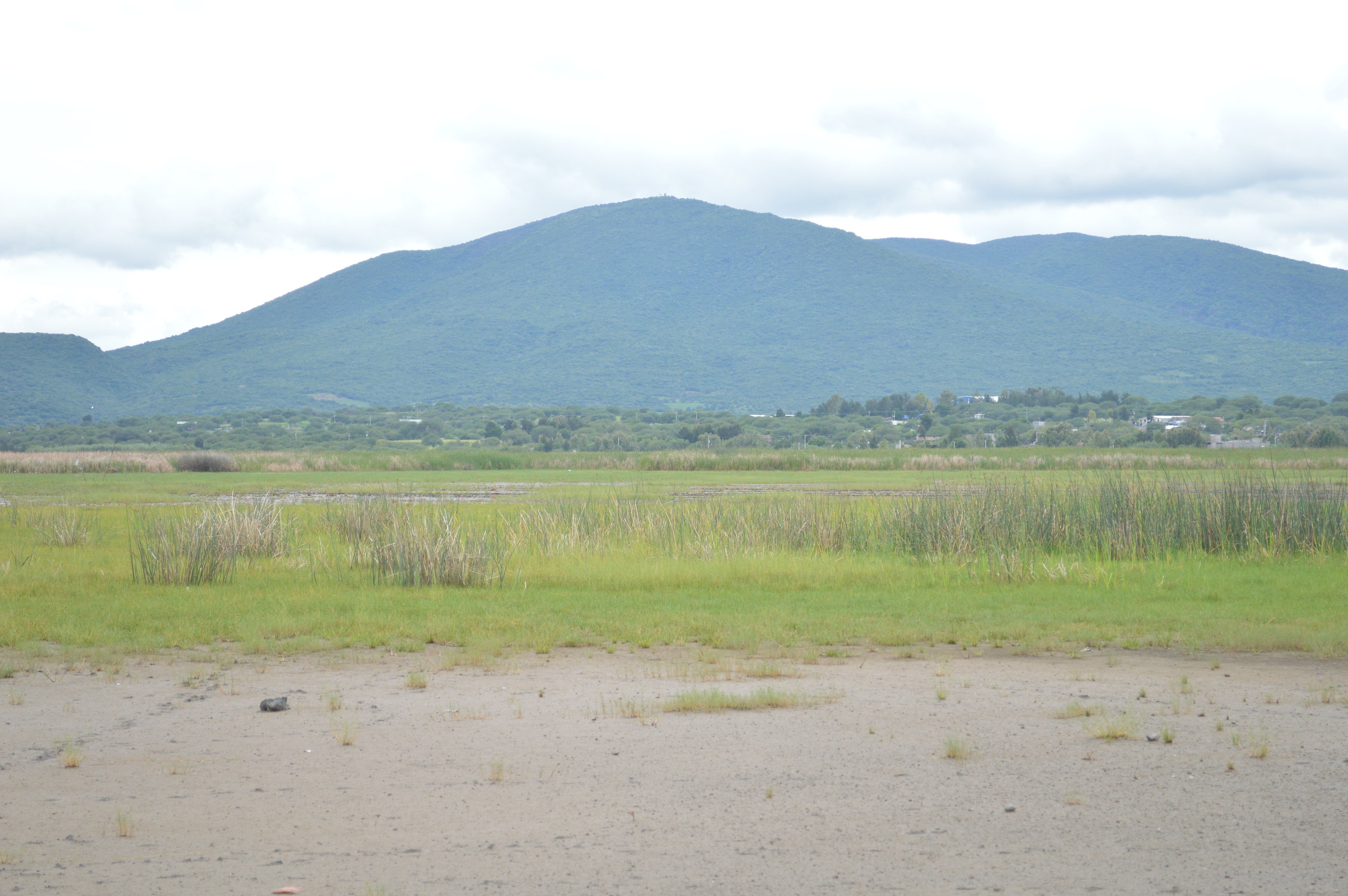 View of Lake Cuitzeo from the south side of the town of Cuitzeo, showing how shallow the water is